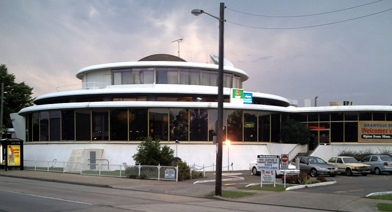 The RSL Sub-Branch Club in Granville, Sydney NSW Australia. Photo taken from Clyde Street, North-East